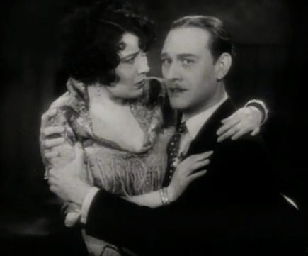 Yola d'Avril & Conrad Nagel in The Right of Way (1931) - trailer (cropped screenshot)